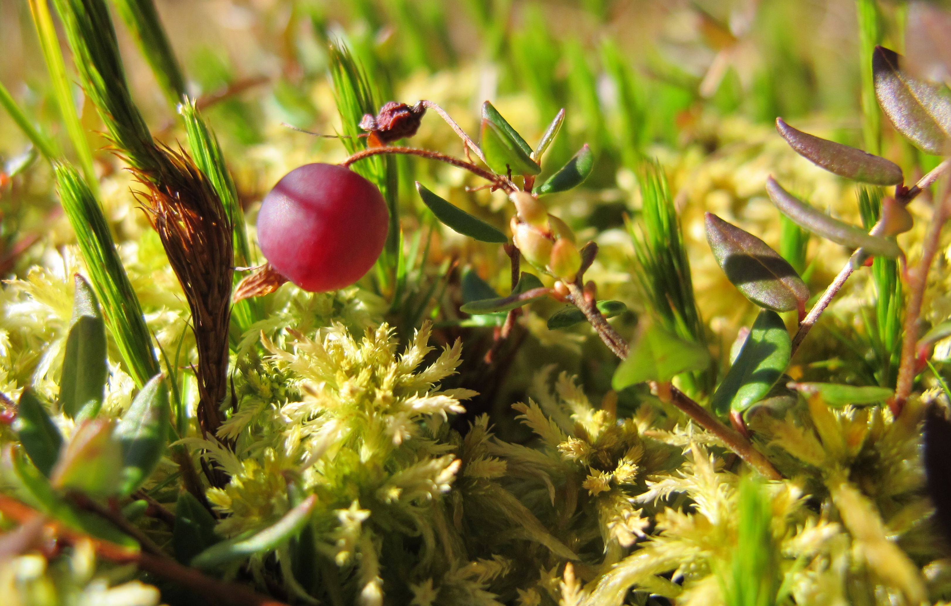 Oxycoccus palustris in nature reserve Klikvová louka near Bedřichov in Jizera Mountains, Jablonec nad Nisou District in Czech Republic